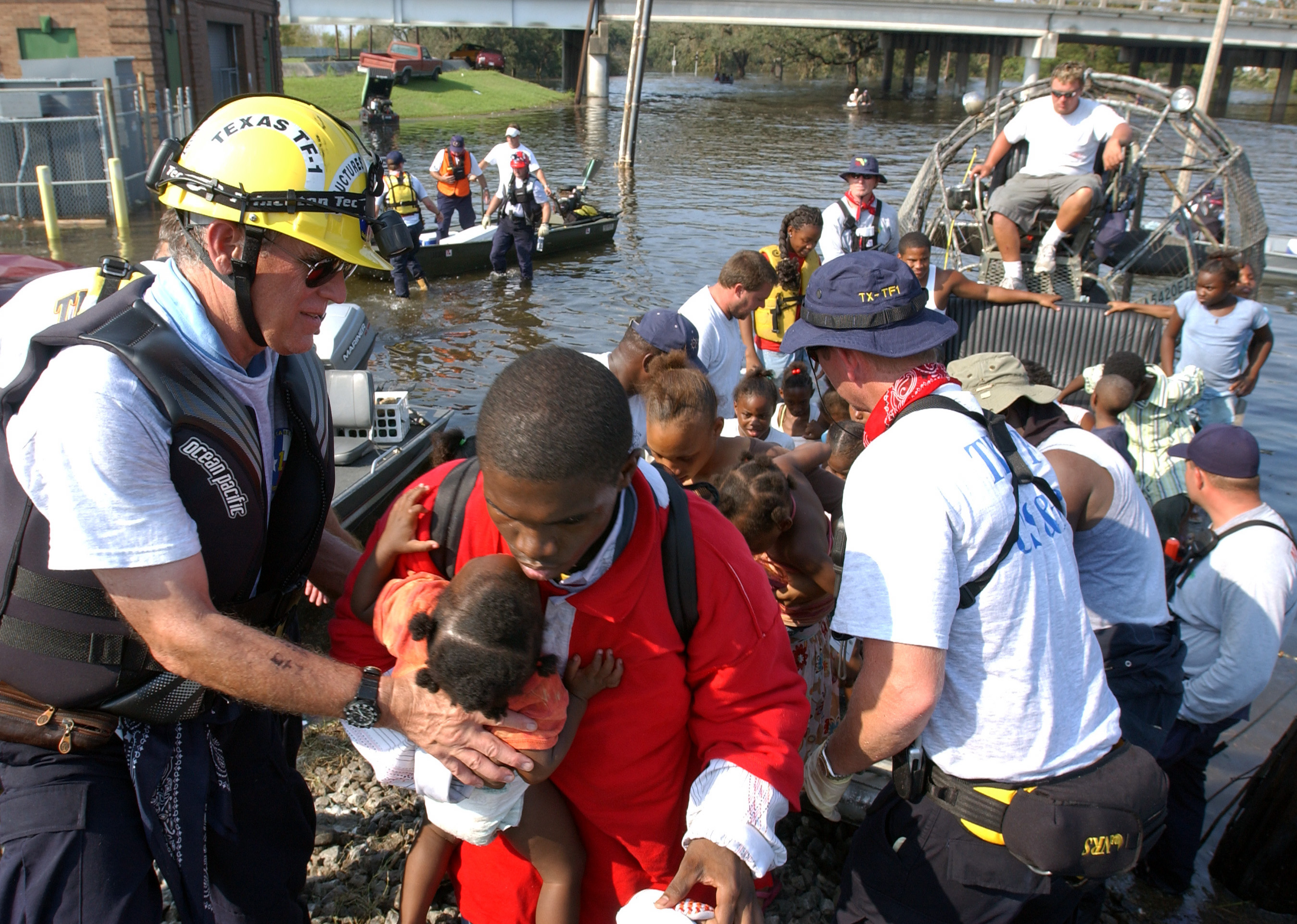 New Orleans, LA, August 31, 2005 -- Members of the FEMA Urban Search and Rescue task forces continue to help residents impacted by Hurricane Katrina. These residents were transported to the area from various neighborhoods and need to cross over the tracks to get on a second boat which will bring them to dry land. Photo by Jocelyn Augustino/FEMA